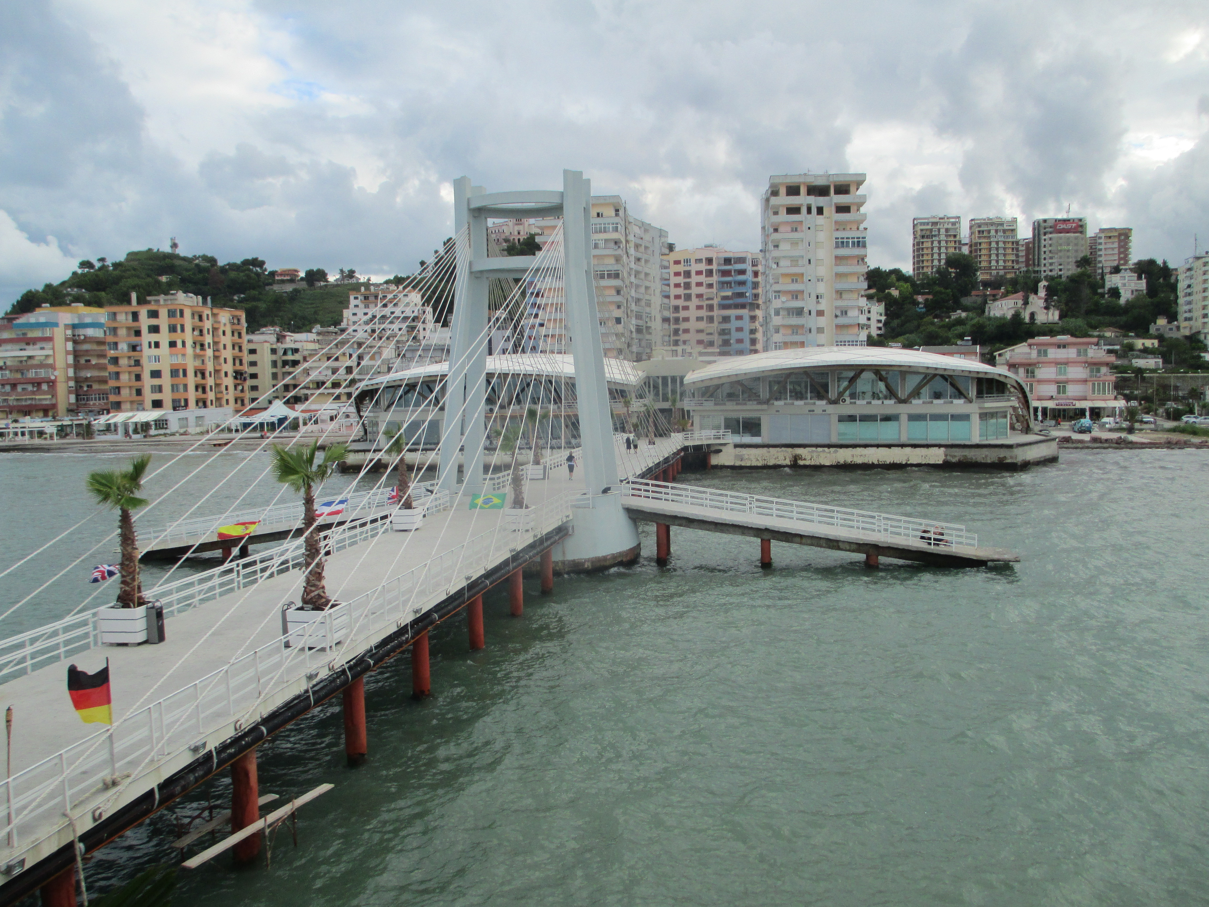 Durrës beach promenade